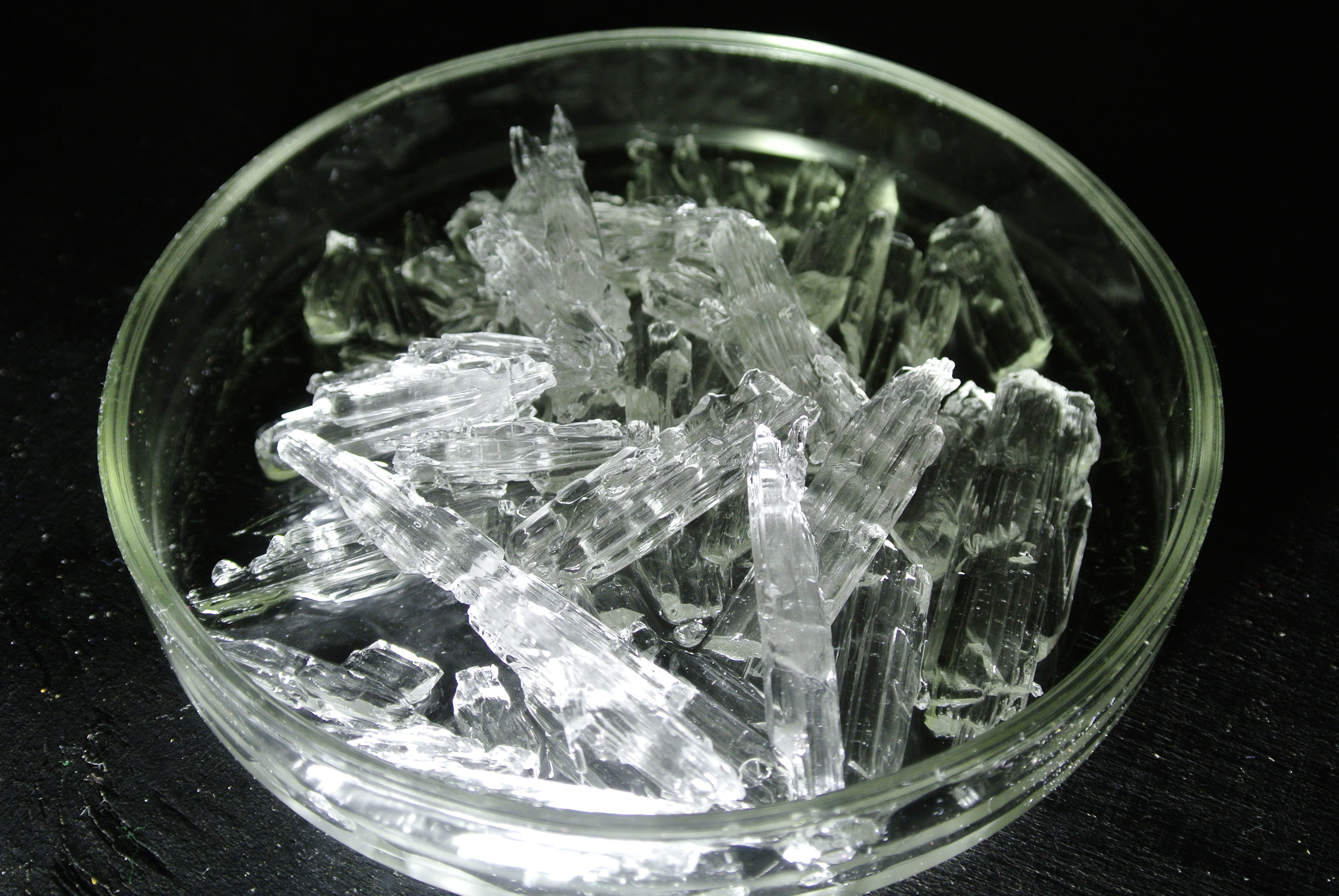 Sulfuric acid crystals (H2SO4)